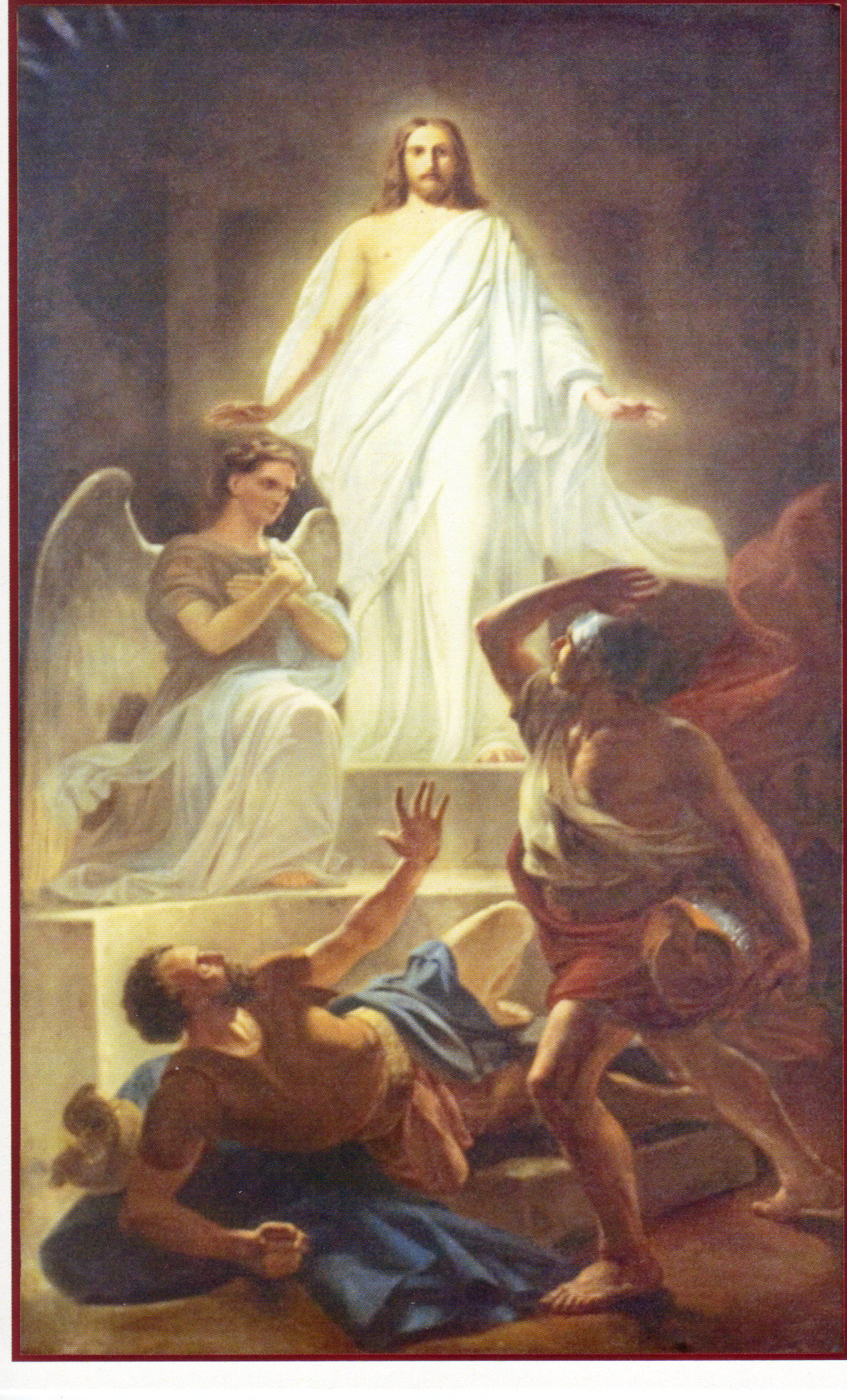 Valga St. John's church altar picture Risen Christ.